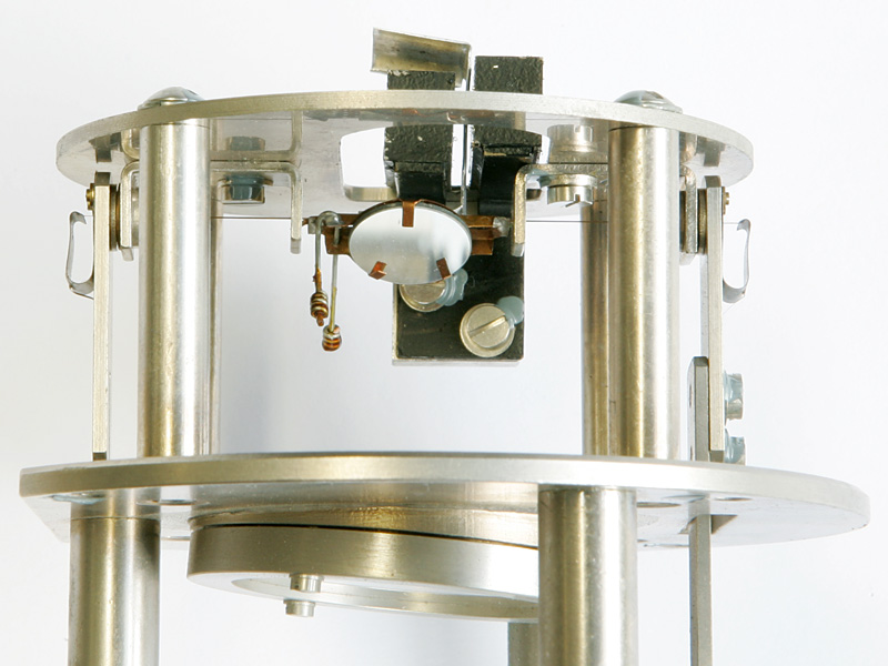 Deflection assembly of a electrostatic voltmeter according to Starke-Schröder. The capacitor plate can be seen on the top, the deflection mirror in the middle. The mirror is suspended on two thin wires which also serve as a torsion spring.